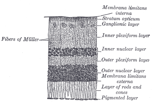 Original description from The retina consists of an outer pigmented layer and an inner nervous stratum or retina proper. The pigmented layer consists of a single stratum of cells. When viewed from the outer surface these cells are smooth and hexagonal in shape; when seen in section each cell consists of an outer non-pigmented part containing a large oval nucleus and an inner pigmented portion which extends as a series of straight thread-like processes between the rods, this being especially the case when the eye is exposed to light. In the eyes of albinos the cells of this layer are destitute of pigment. Retina Proper —The nervous structures of the retina proper are supported by a series of nonnervous or sustentacular fibers, and, when examined microscopically by means of sections made perpendicularly to the surface of the retina, are found to consist of seven layers, named from within outward as follows: Stratum opticum. Ganglionic layer. Inner plexiform layer. Inner nuclear layer, or layer of inner granules. Outer plexiform layer. Outer nuclear layer, or layer of outer granules. Layer of rods and cones.